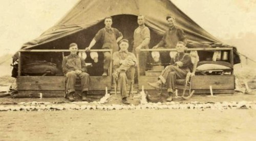 Can you help us identify people in this photo? Please leave any identifications in the comments. Thanks! Back row, l-r: ?, ?, Harvey Hartzler Front row, l-r: ?, Sam Stuckey, Philomen Frey Philoman Frey Photographs, circa 1917. HM1-318SC. Mennonite Church USA Archives - Goshen. Goshen, Indiana.